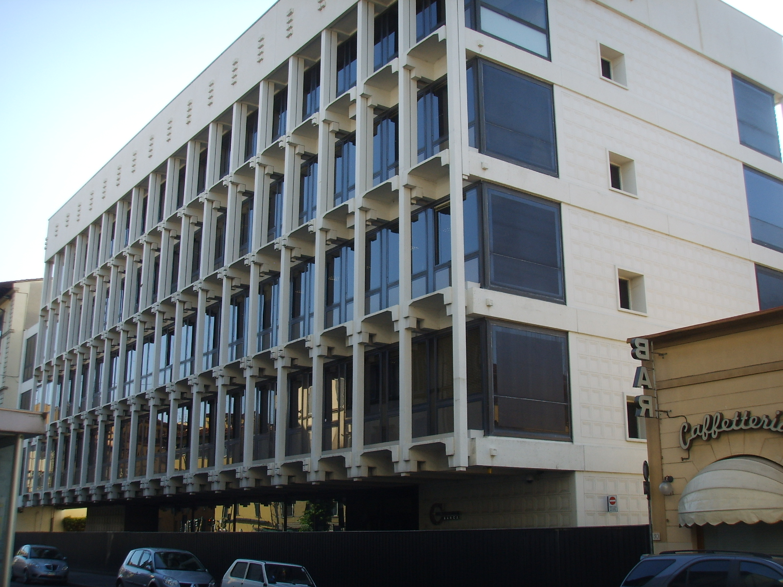 Centro leasing